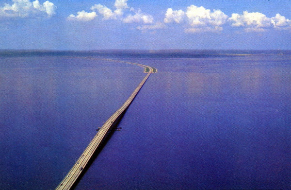 Aerial view of Howard Frankland Bridge and causeway : Pinellas County, Florida.